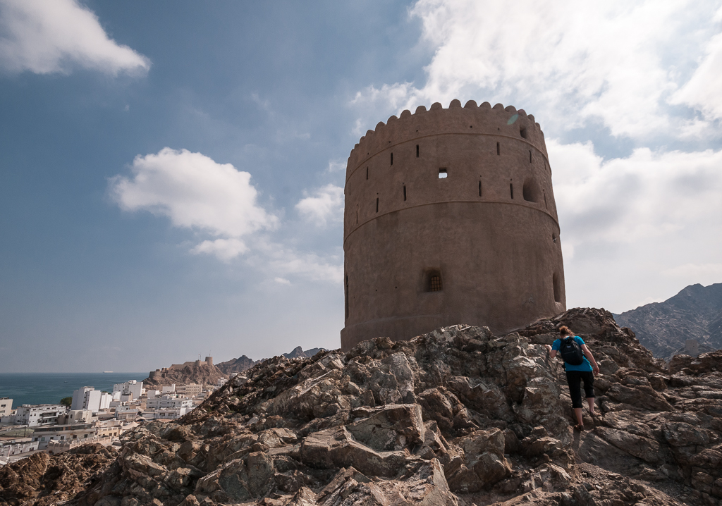 Portuguese watch tower in Mutrah, Oman.